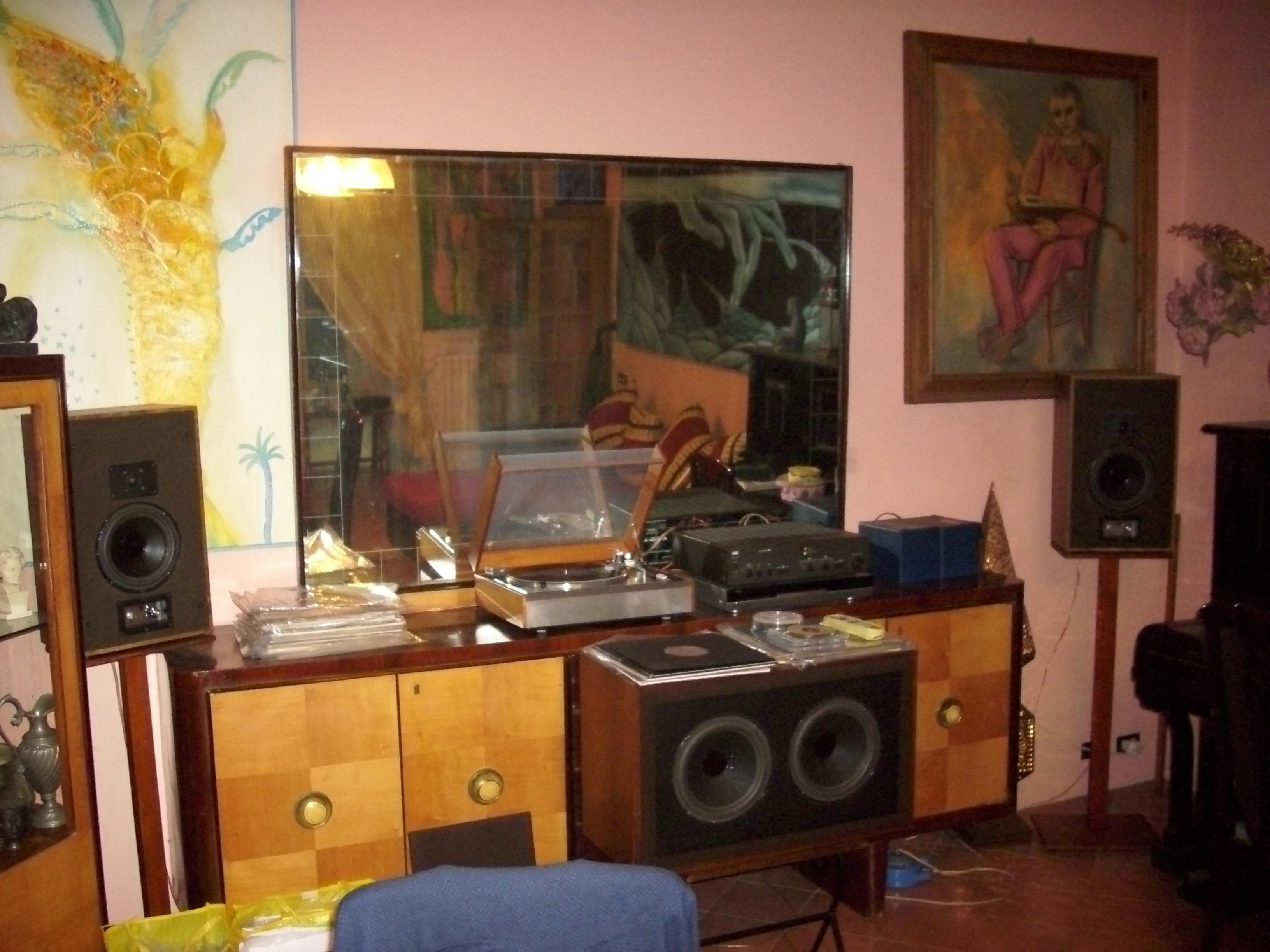 My own system composed by Cizek Two plus MG27 Sub-Woofer